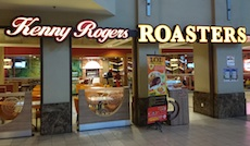 Kenny Rogers Roasters outlet in Berjaya Times Square, Kuala Lumpur